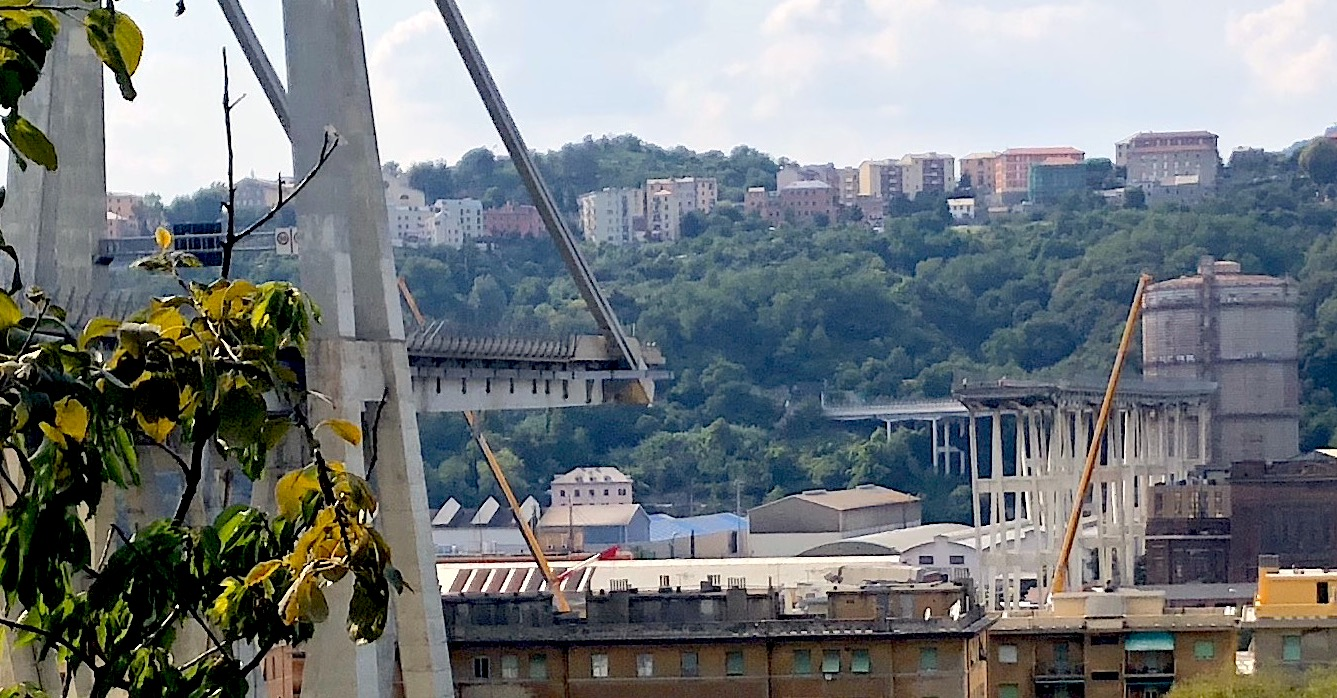 The Morandi Bridge after the collapse that occurred on August 14, 2018. This view is to the east from the Genoa West junction.